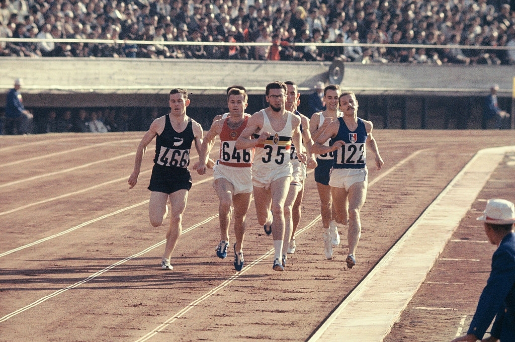 Athletes compete in the Men's 800m Semi-final at the National Stadium during the Tokyo Olympic on October 15, 1964 in Tokyo, Japan. Left-right: Peter Snell, Valery Bulyshev, Jacques Pennewaert, Maurice Lurot